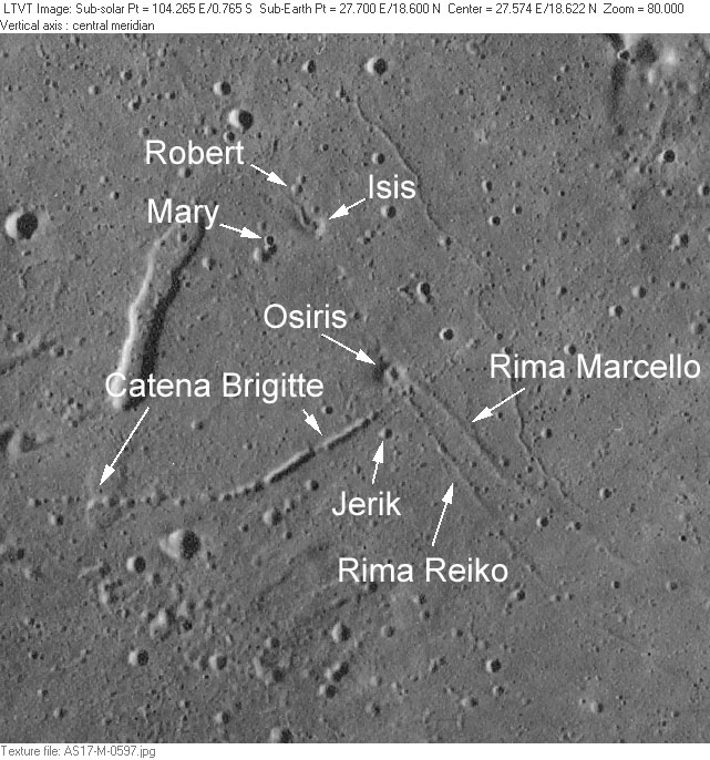 Detail from Apollo 17 metric image AS17-M-0597, remapped to a north-up aerial view by LTVT.